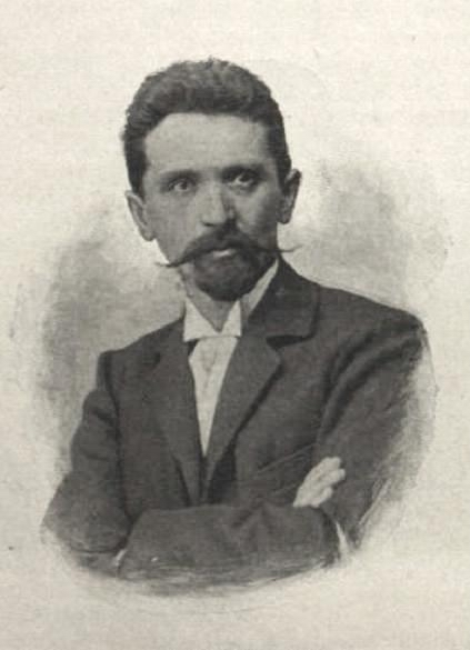 Ödön Jakab poet